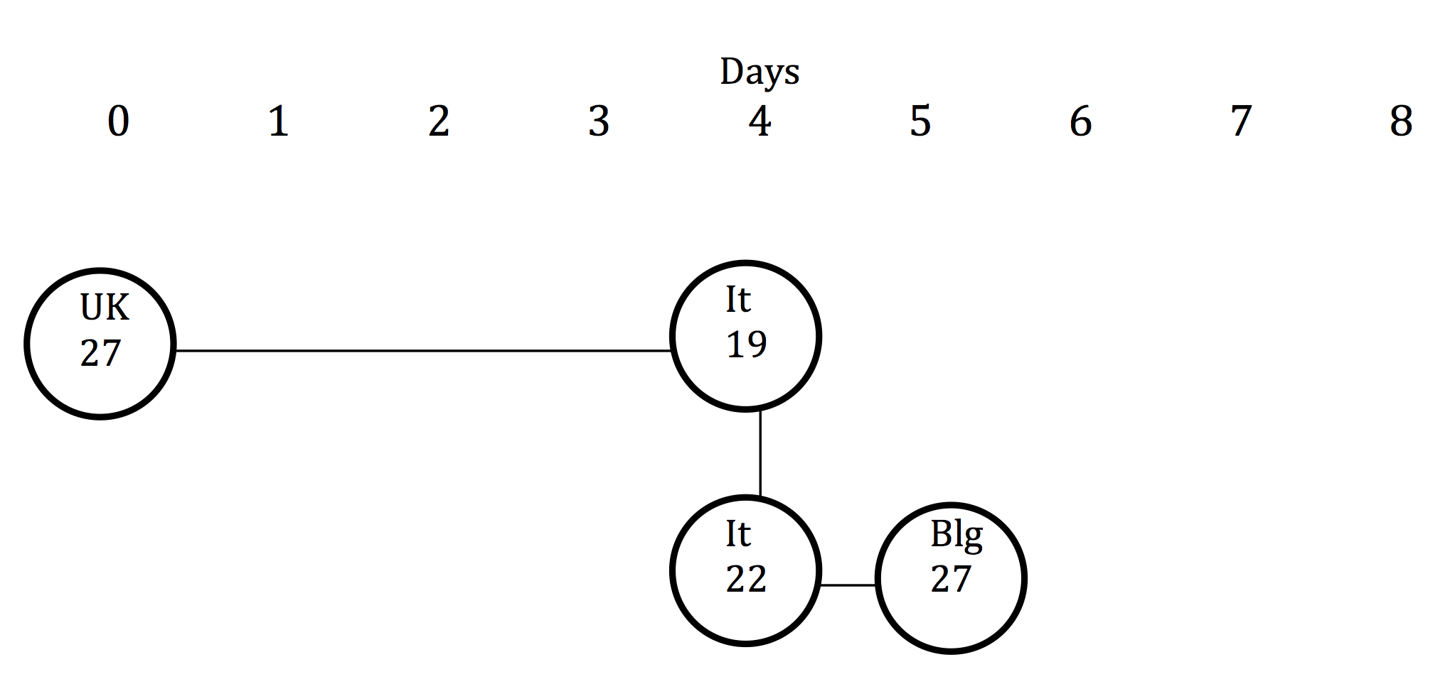 The results of snowball samples.